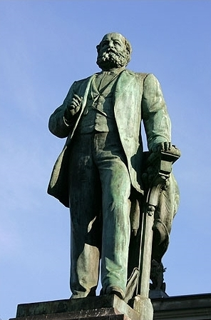 Alfred Escher, Swiss industrialist and politician (1819-1882). Monument on Station Square, Zurich, sculpted by Richard Kissling